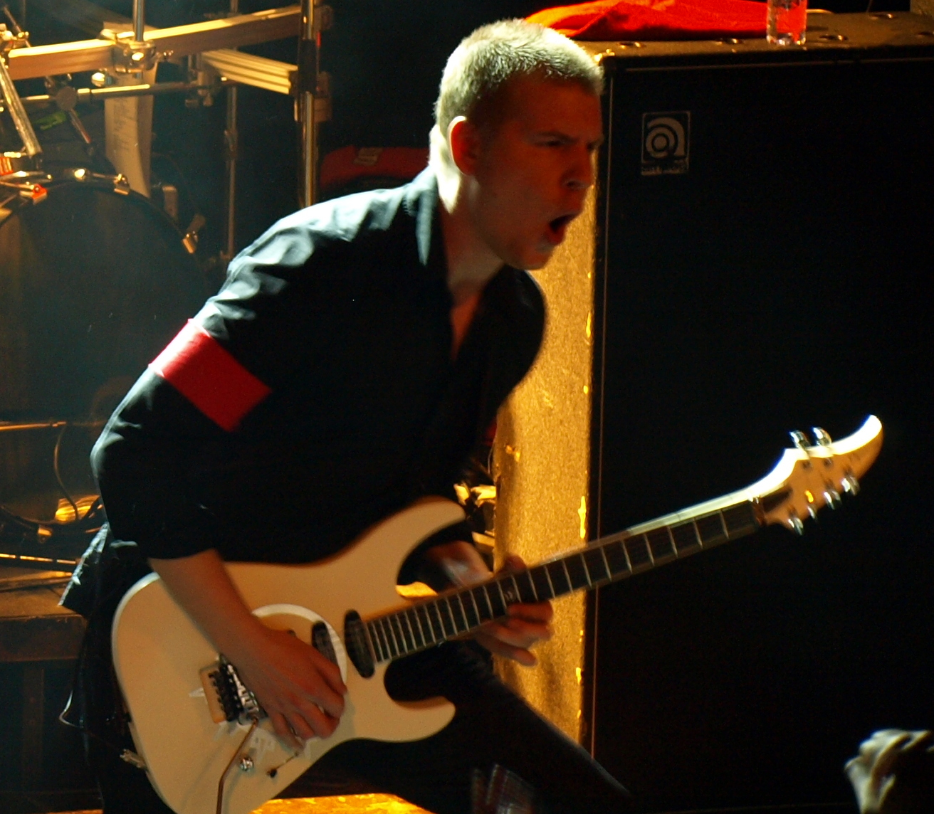 Swedish melodic death metal band Arch Enemy